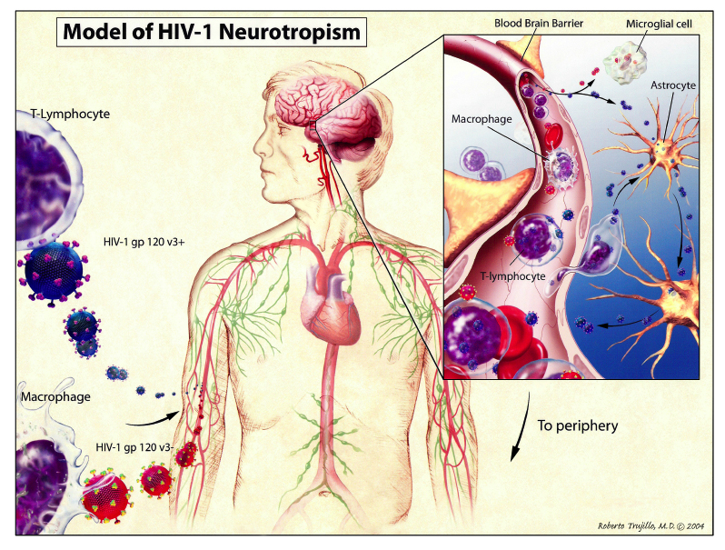 Model of HIV-1 Neurotropism